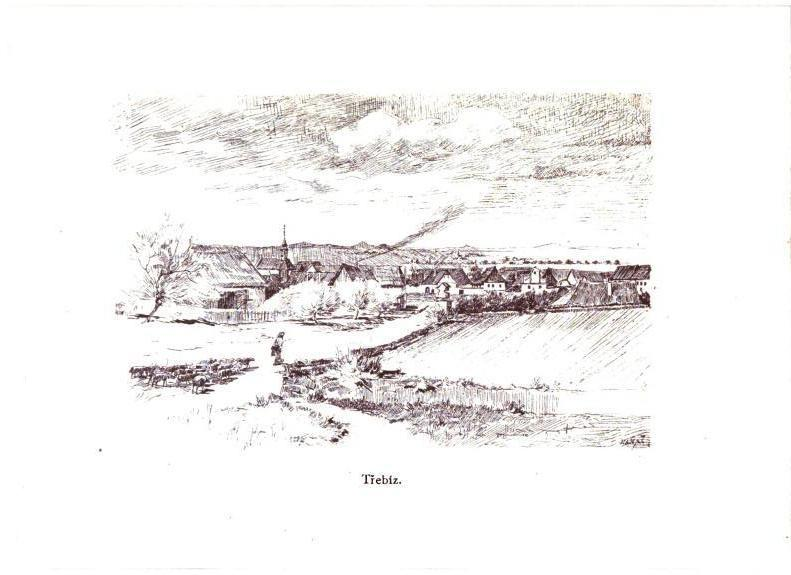 A view of Třebíz, a village in the Czech Republic.